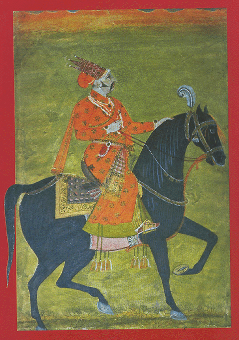 Mughal Equestrian Rajasthan, 18th century